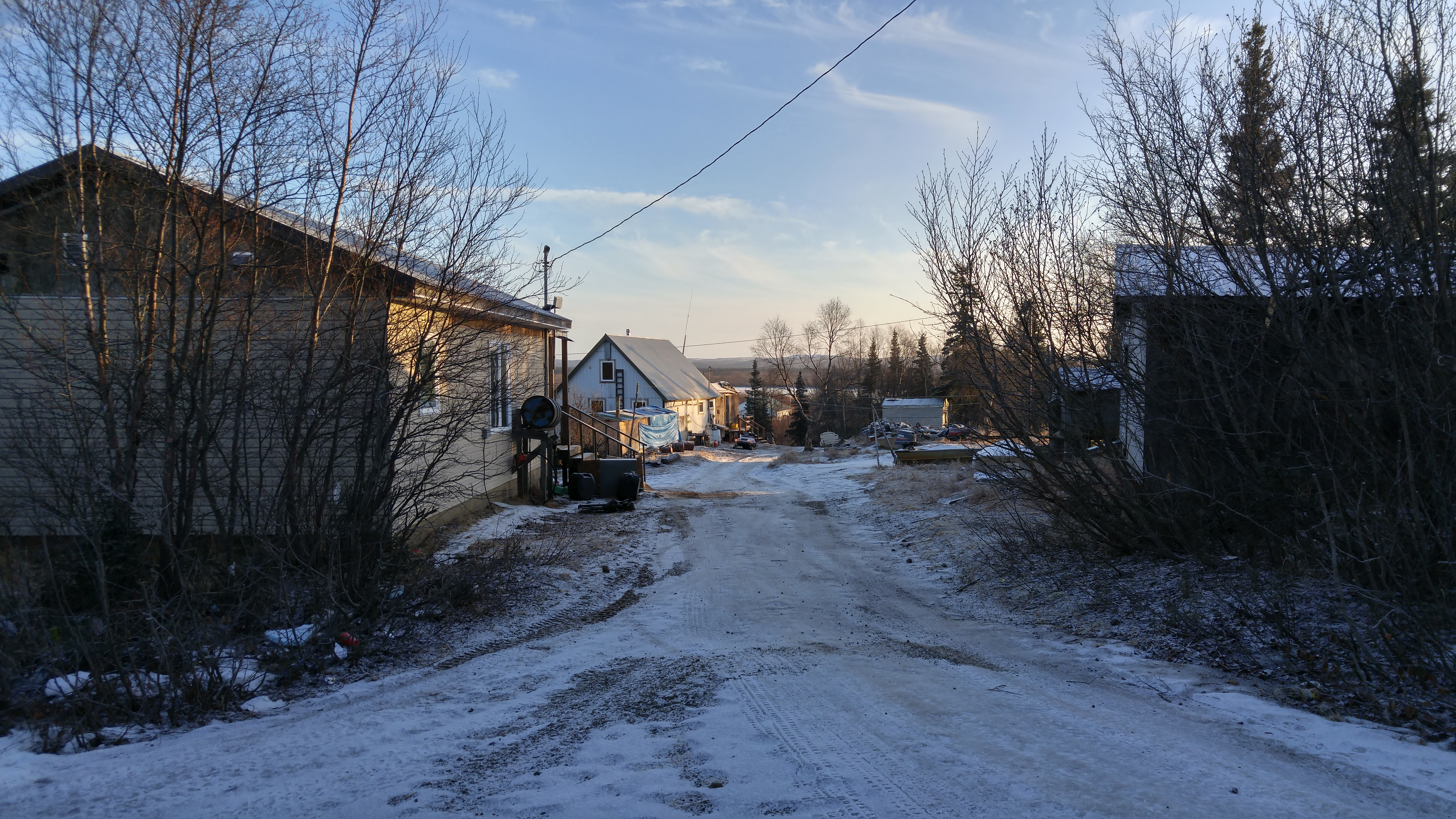 A street level view of New Stuyahok, Alaska around noon on 12-Jan-2016. Visible are some typical homes and outbuildings.